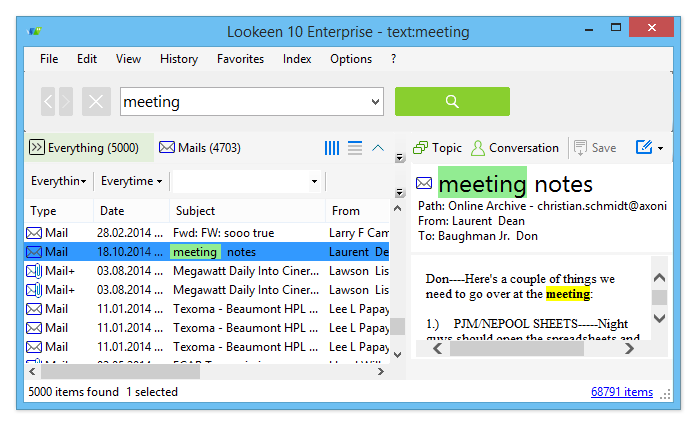 Screenshot of the search results overview and preview by the Lookeen Desktop Search software